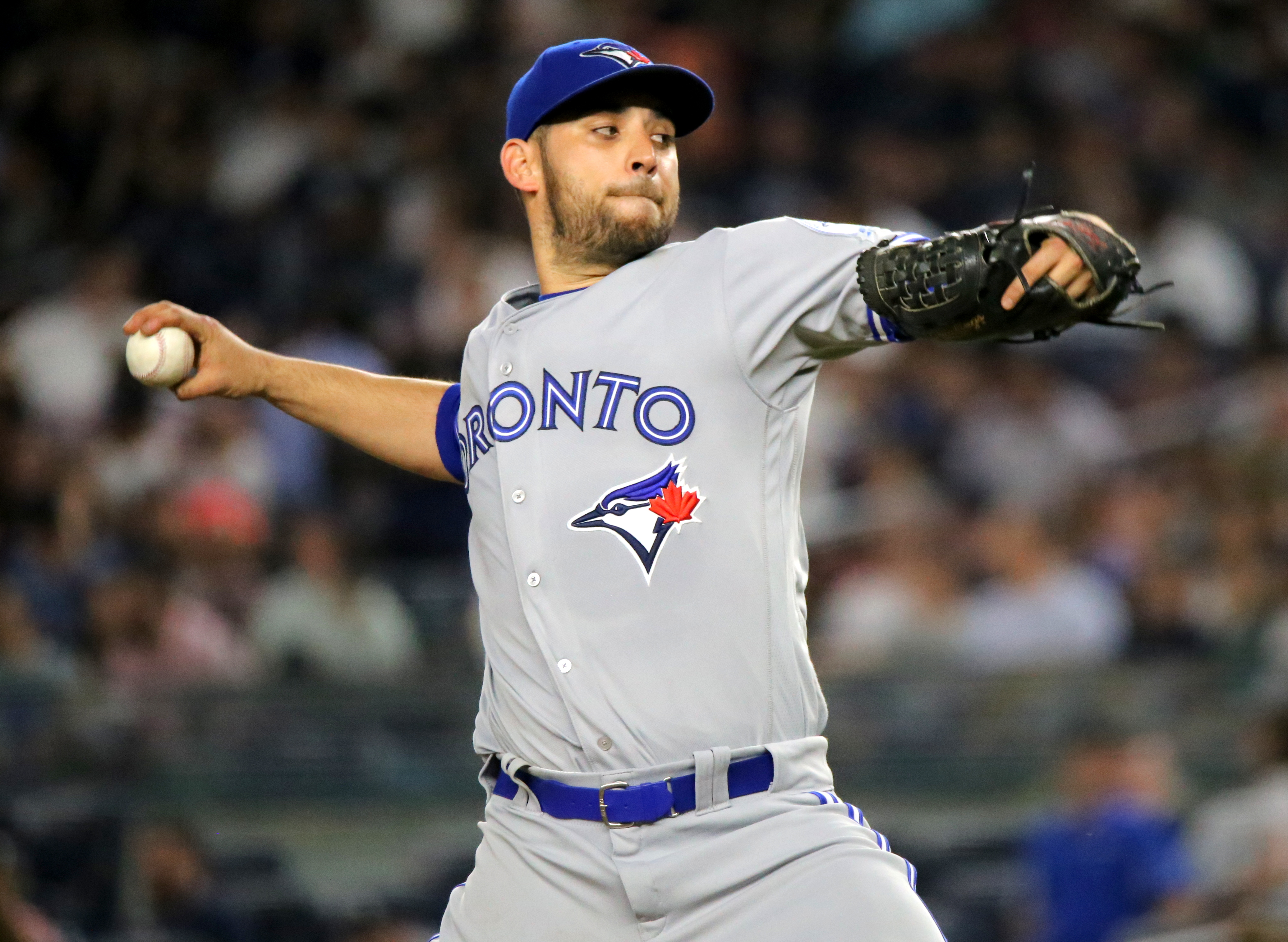 Marco Estrada on May 25, 2016